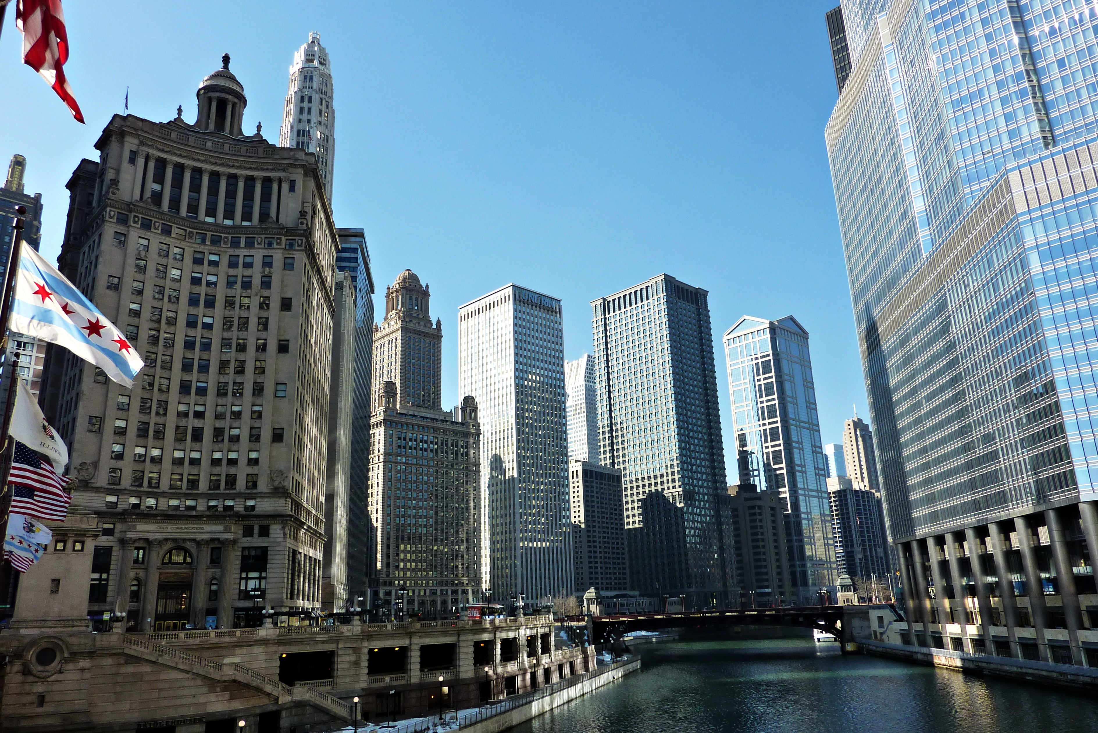 Chicago, IL, USA.